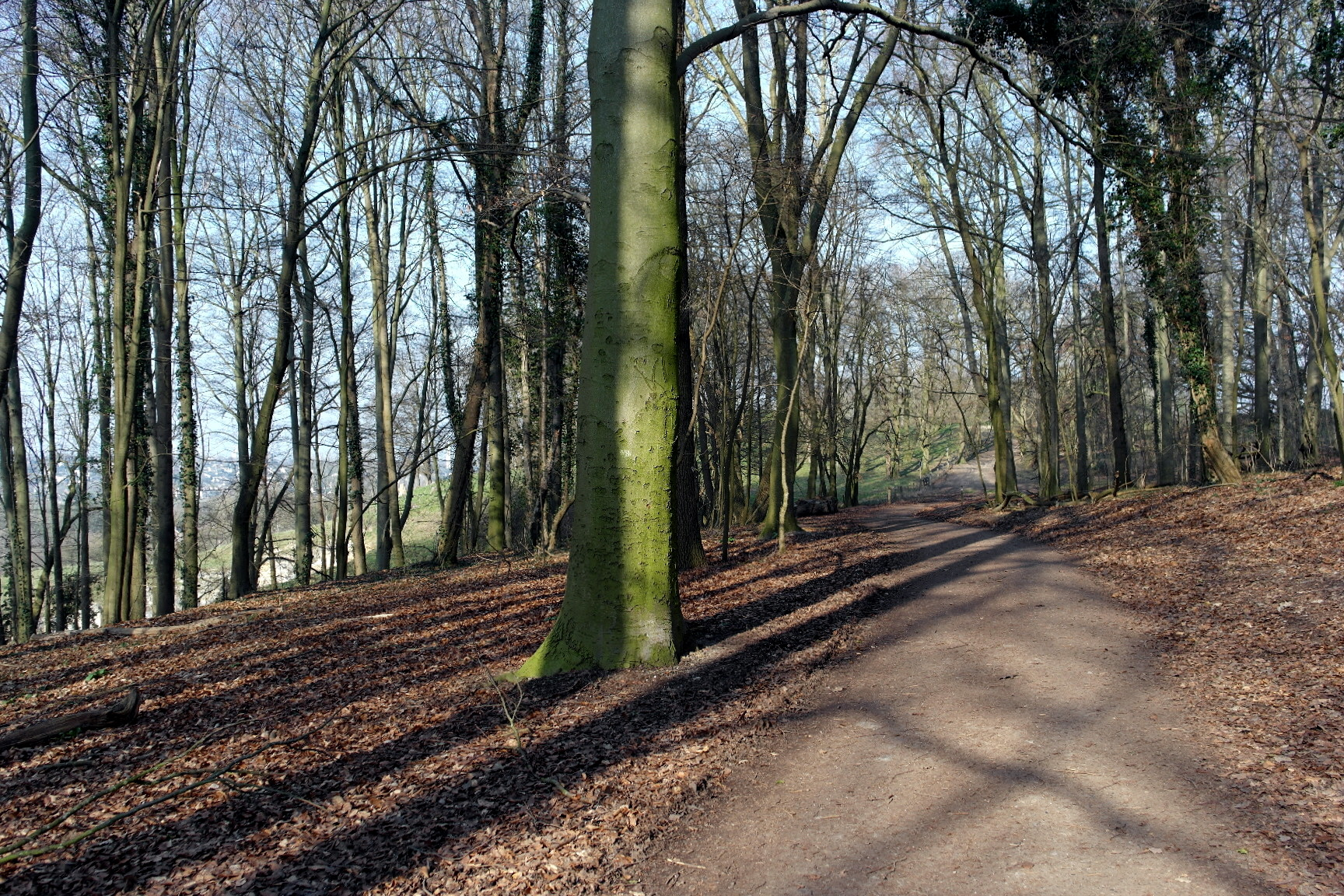 View of ENCI-bos, a relatively young forest on Mount St Peter in Maastricht, the Netherlands.